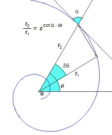 equiangular spiral and its relation with e